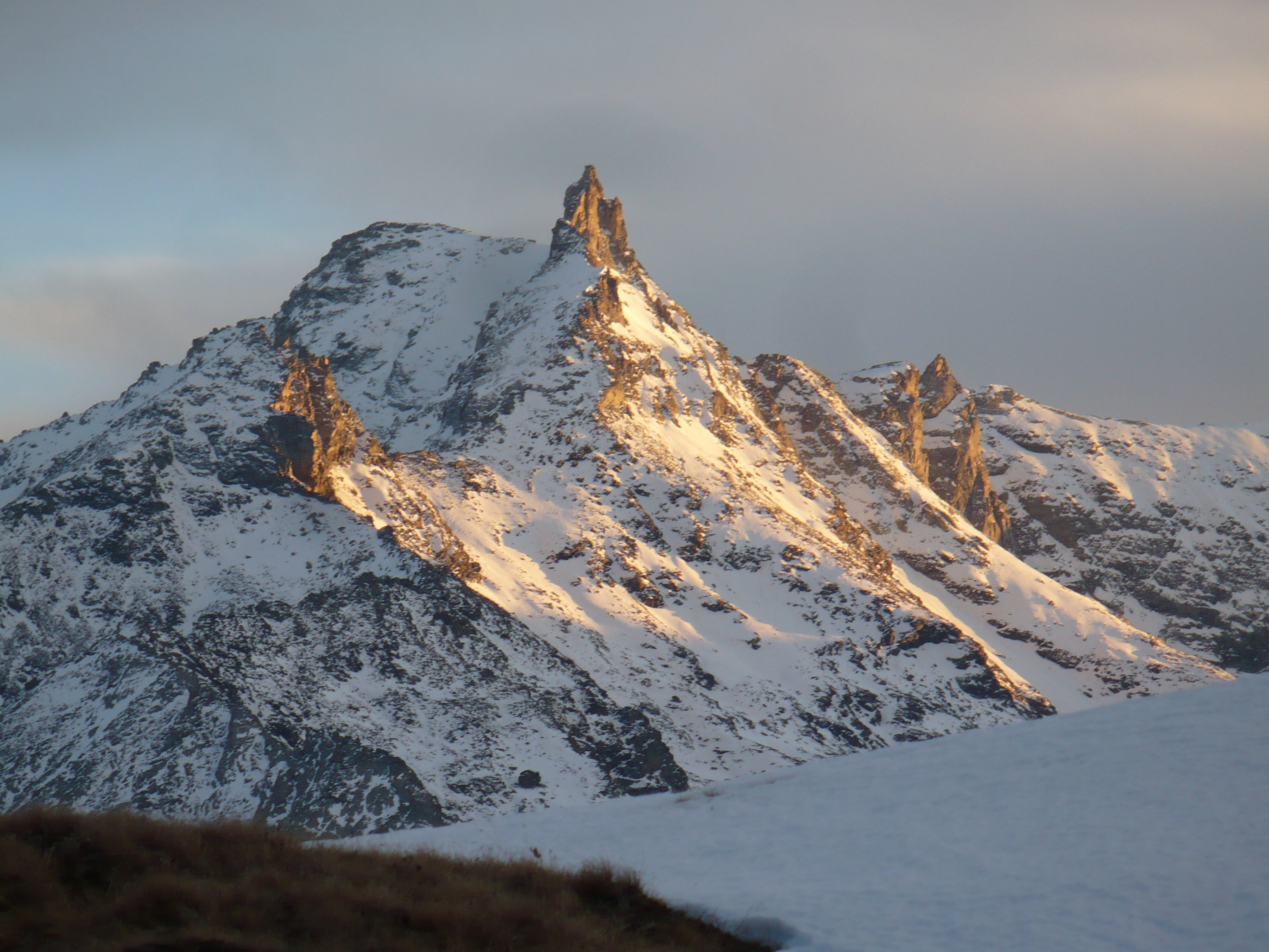 Denti d'Ambin - Alpi del Moncenisio - Cottian Alps